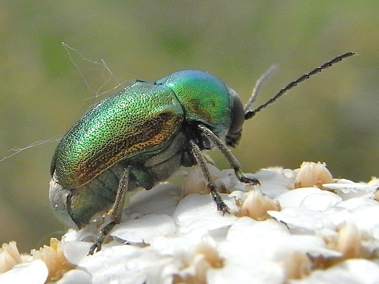 Cryptocephalus sericeus from Hungary near Mezötur at 2010-05-29 Ricoh R8